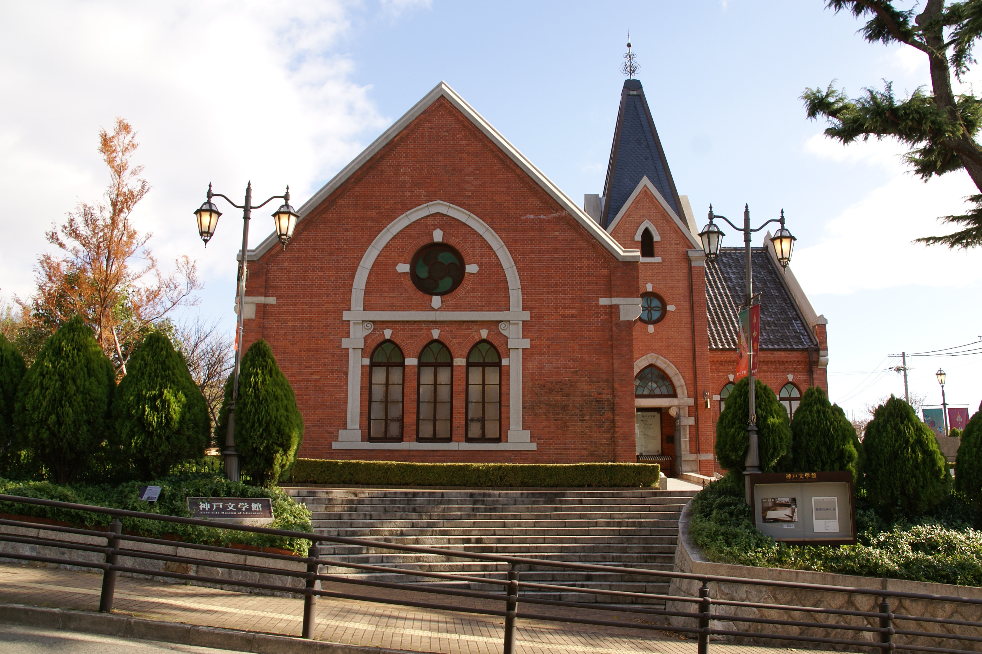 Kobe City Museum of Literature in Kobe, Hyogo prefecture, Japan